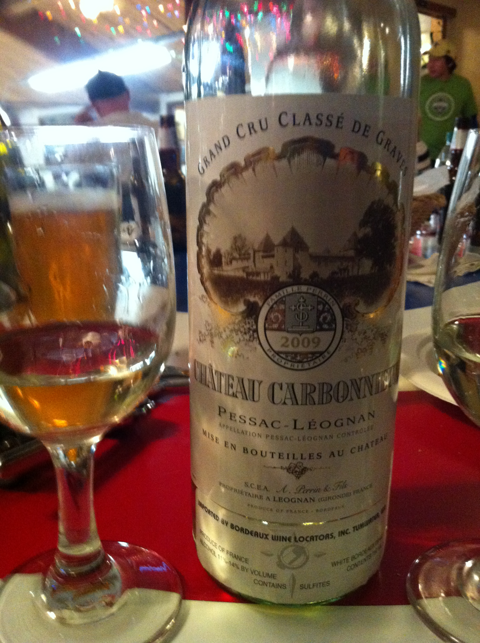 White Bordeaux made from Semillion and Sauvignon blanc in the Pessac-Leognan region of the Graves